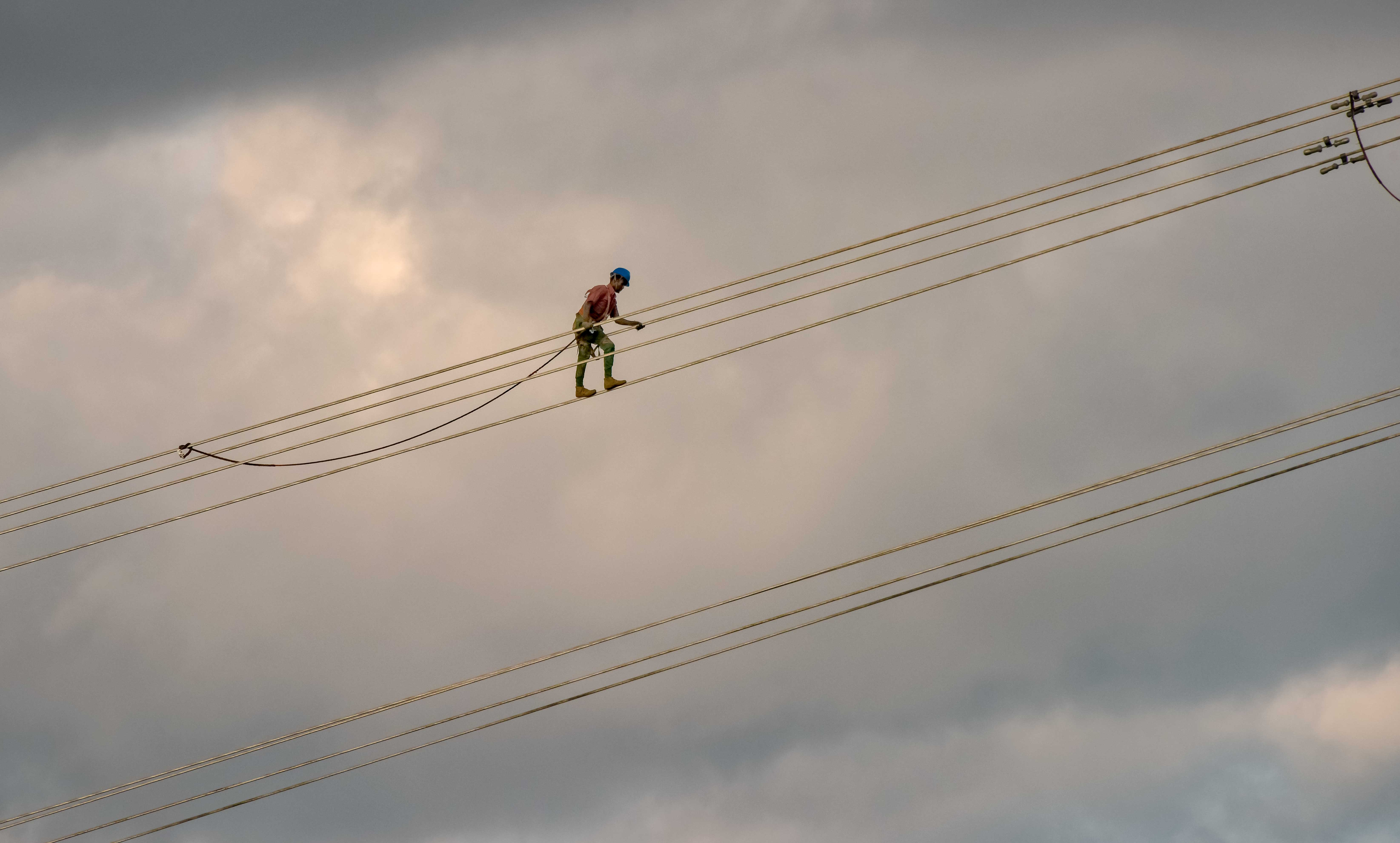 Lineman on a conductor bundle of the Ethiopia–Kenya 500 kV HVDC Interconnector (power line under construction) in Ethiopia; Stockbridge dampers visible on the right